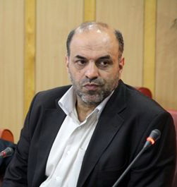 IRAN+ABOOZAR+NADIMI